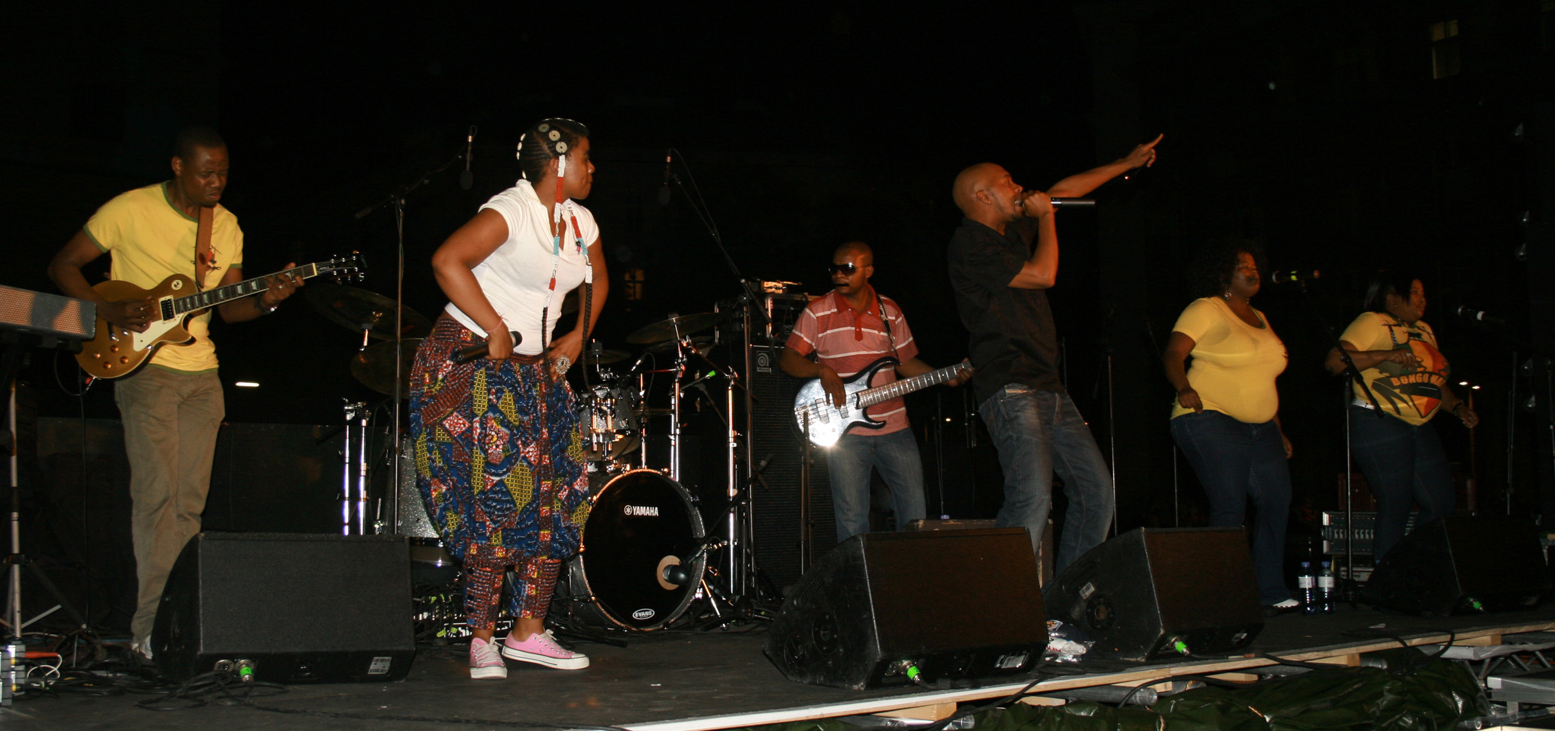 South African kwaito-band Bongo Maffin; performance at a presentation of the nine host-cities of the 2010 FIFA World Cup in South Africa during the UEFA Euro 2008 in Vienna (Austria).